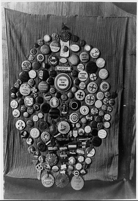 Photograph shows "votes for women" buttons in various sizes, colors, and shapes attached to a canvas